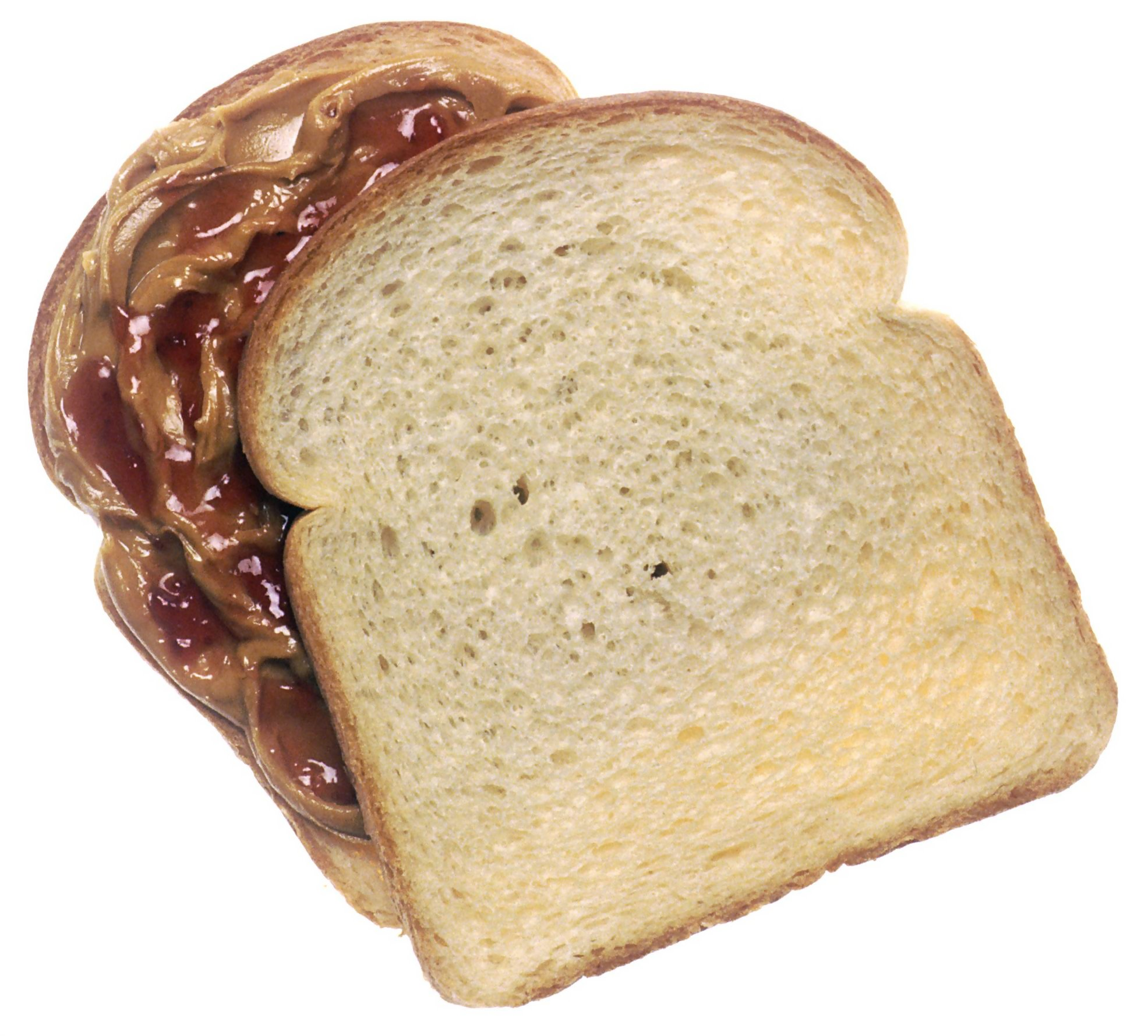 a peanut butter and jelly sandwich, top slice of bread turned clockwise to show the peanut butter and jelly filling